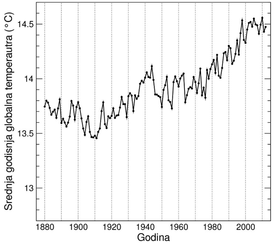 Средња годишња глобална температура